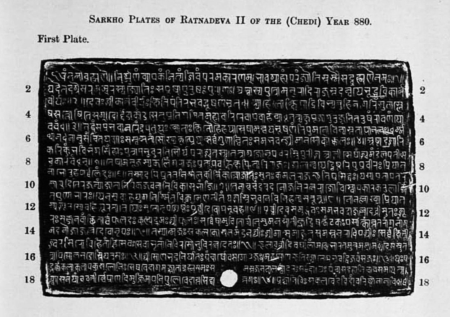 A Sanskrit inscription from Chhattisgarh, from village named Sarkho, Bilaspur district. Devanagiri script. 12th century. These are photographs of ancient and pre-12th century inscriptions (2D Art). These were made from a personal copy of the following book. Note that PD-Art guidelines apply, since the original creator of this artwork lived many centuries ago. Any rights I have are herewith donated with Wikimedia Creative Commons 4.0 license. NP Chakravarti (1934), Epigraphia Indica Volume 22.